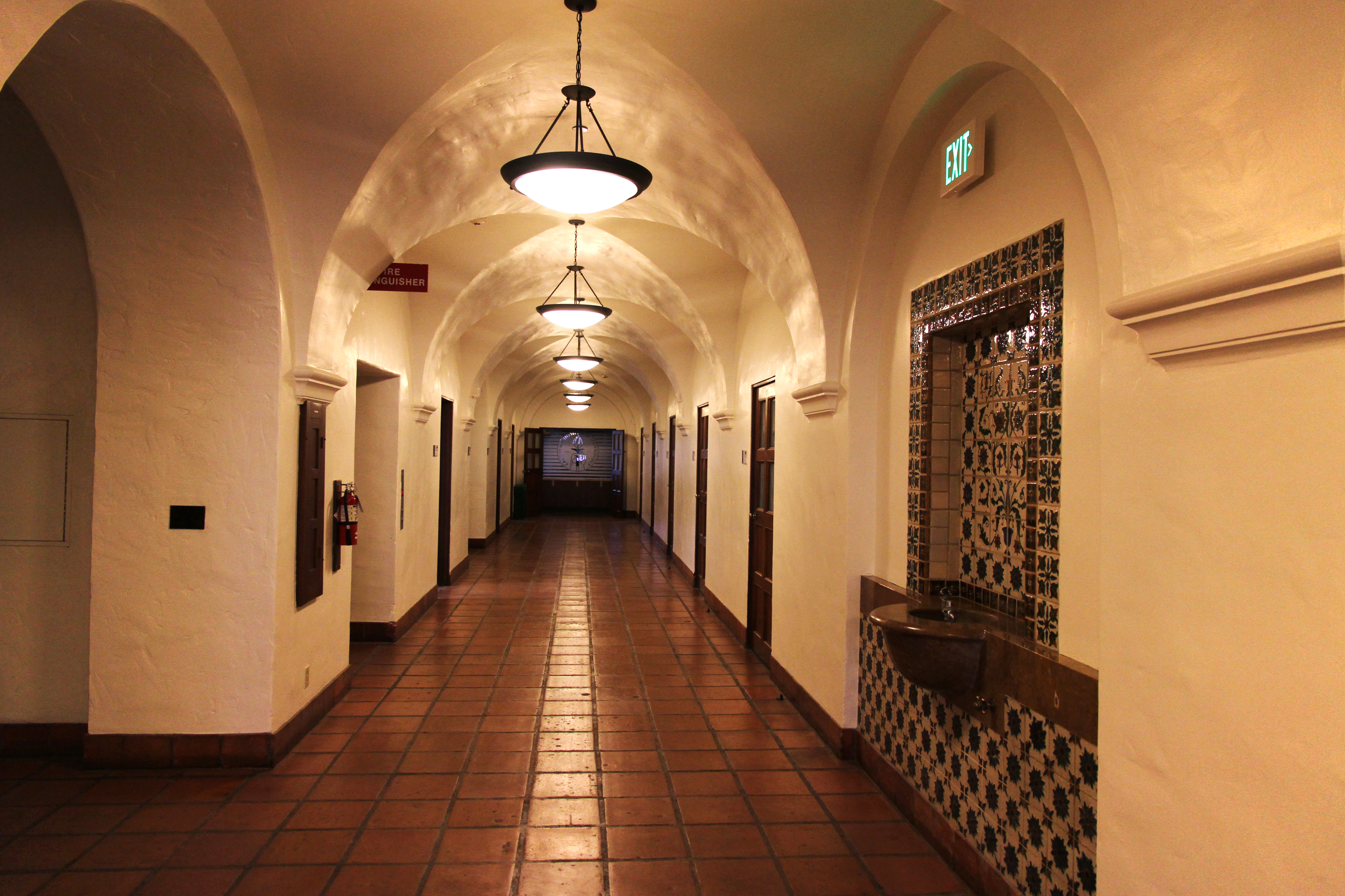 Norman Bridge Lab Interior